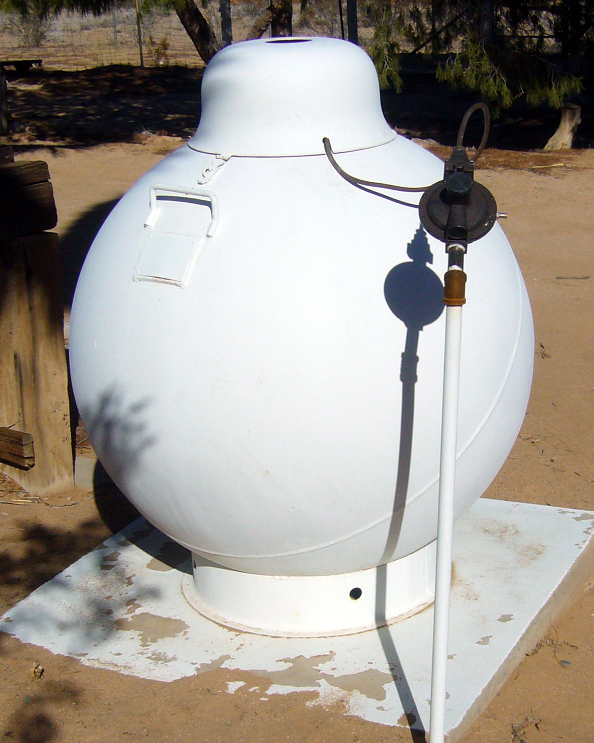 Typical USA home heating Propane storage tank, designed in the 1940s